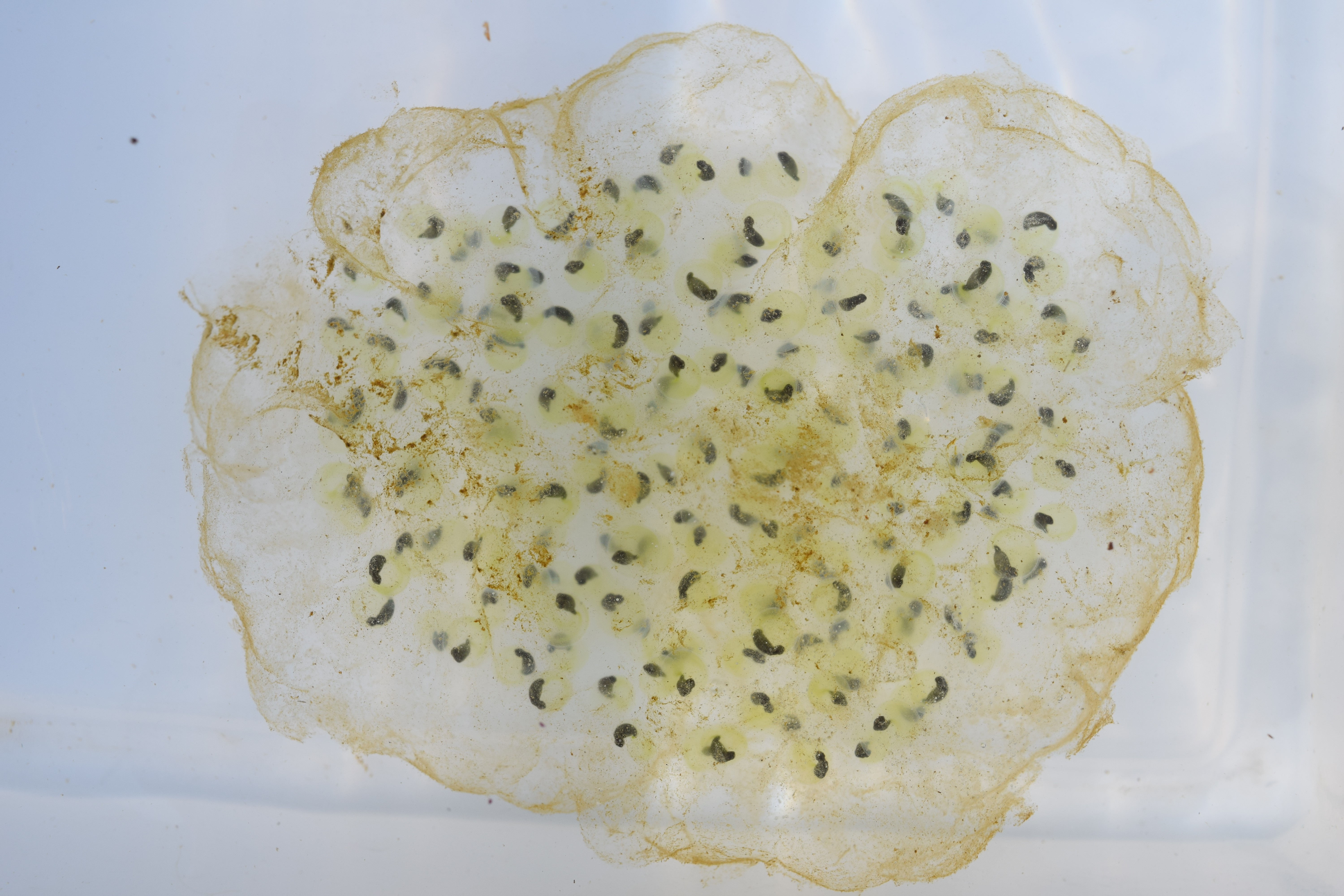 A clear color morph of an Ambystoma maculatum (spotted salamander) egg mass at the University of Mississippi Field Station. Symbiotic algae is visible surrounding each developing larva.